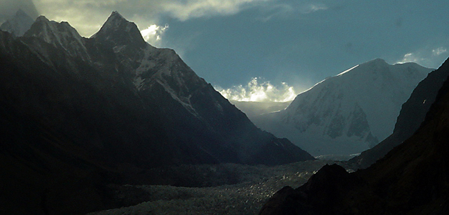 Pasu glacier and Pasu Sar on the right (main summit hidden behind the ridge), (on the very top left, there might be Shispare)